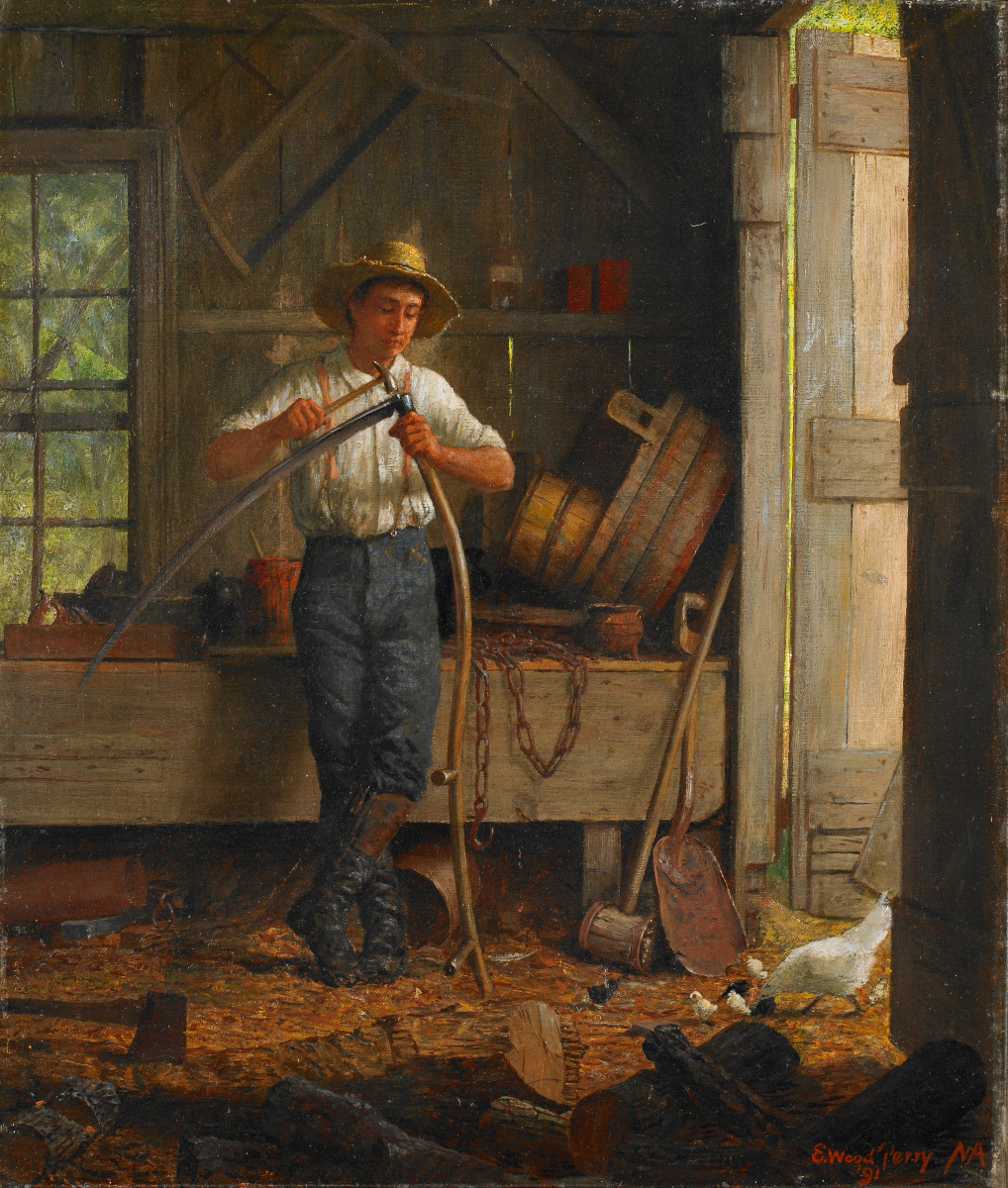 Inside a Barn by Enoch Wood Perry, Jr., 1891